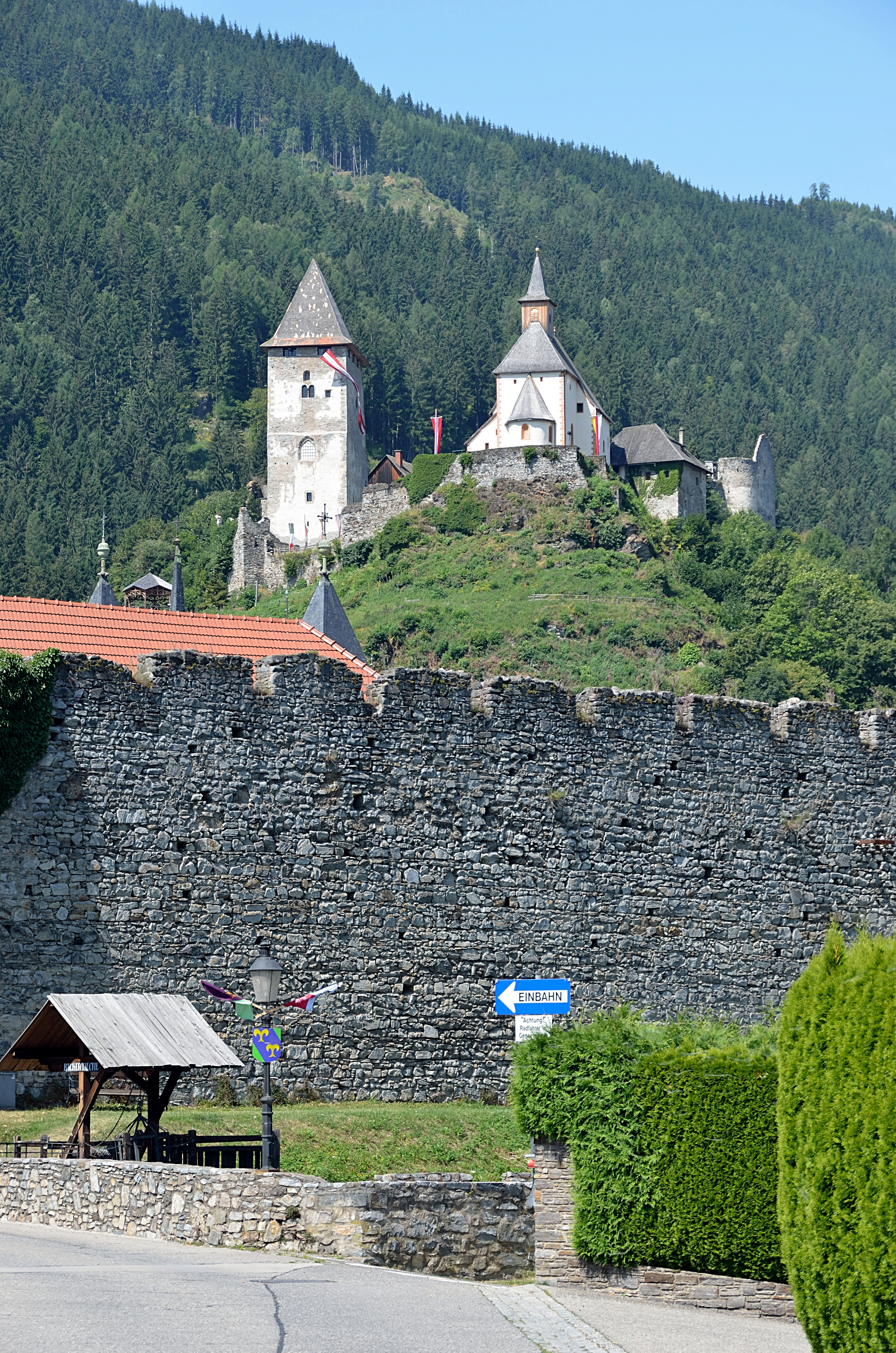 Ruin Petersberg and church in Petersberg above city wall near to the Olsatorbridge, Friesach, Carinthia.